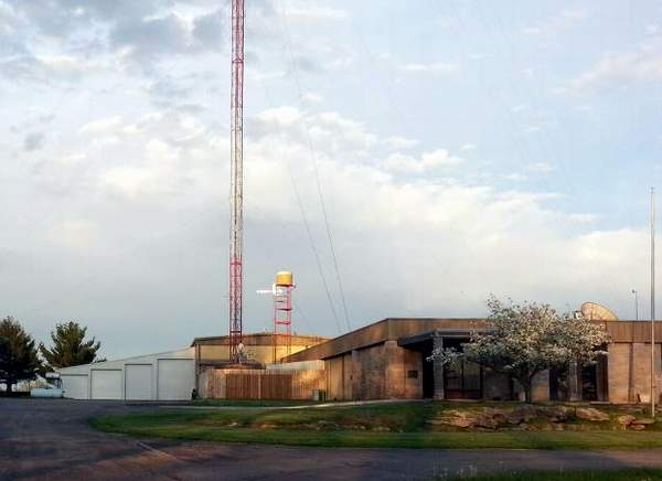 KTVO-TV near Kirksville, Missouri. Pictured is the main public entrance to the facilty.